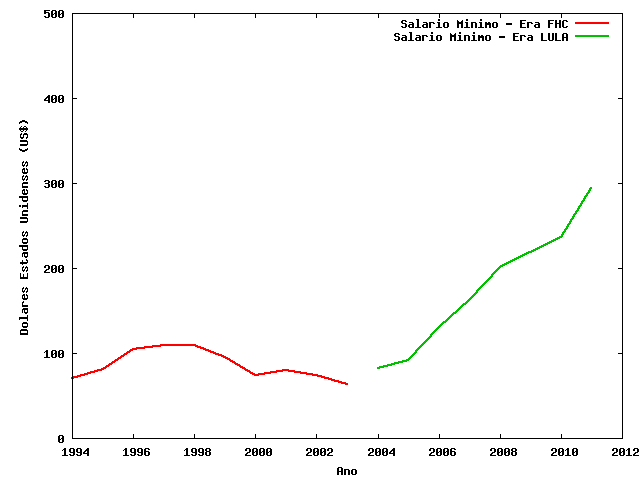 Evolution of the value of Brazilian Minimum Salary over the years, after Plano Real (where the current currency was introduced)